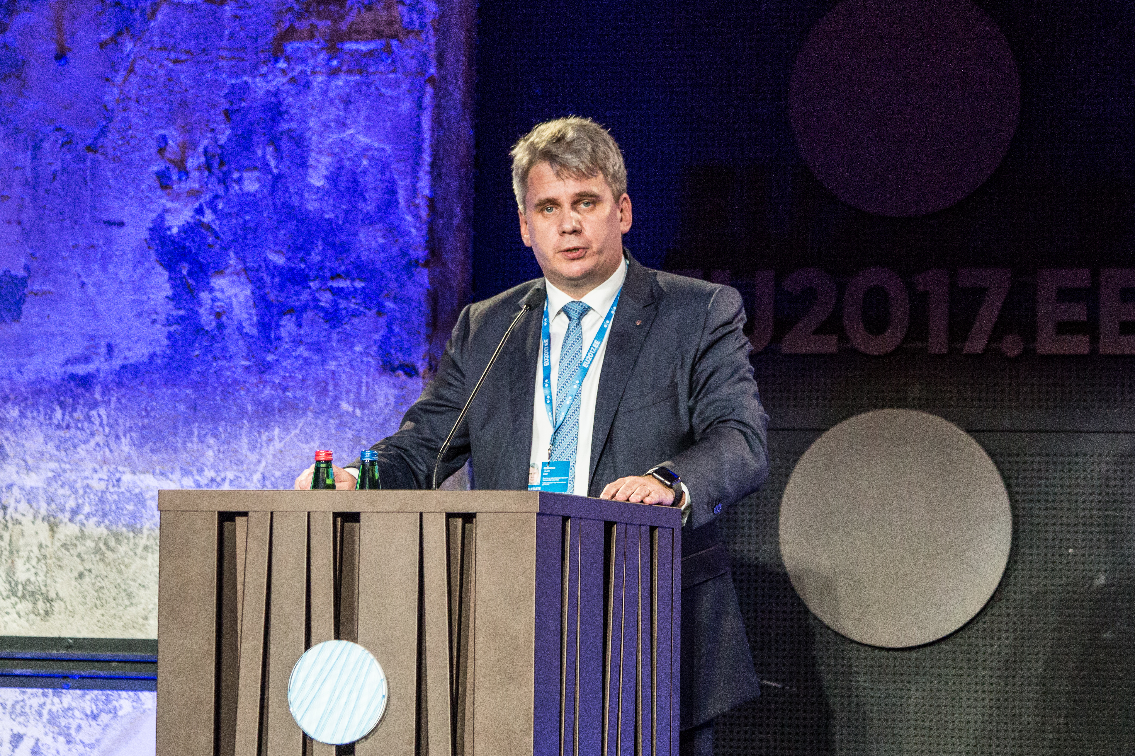 Jaan Reinhold, Director, Estonian Centre of Eastern Partnership Photo: Aron Urb (EU2017EE)